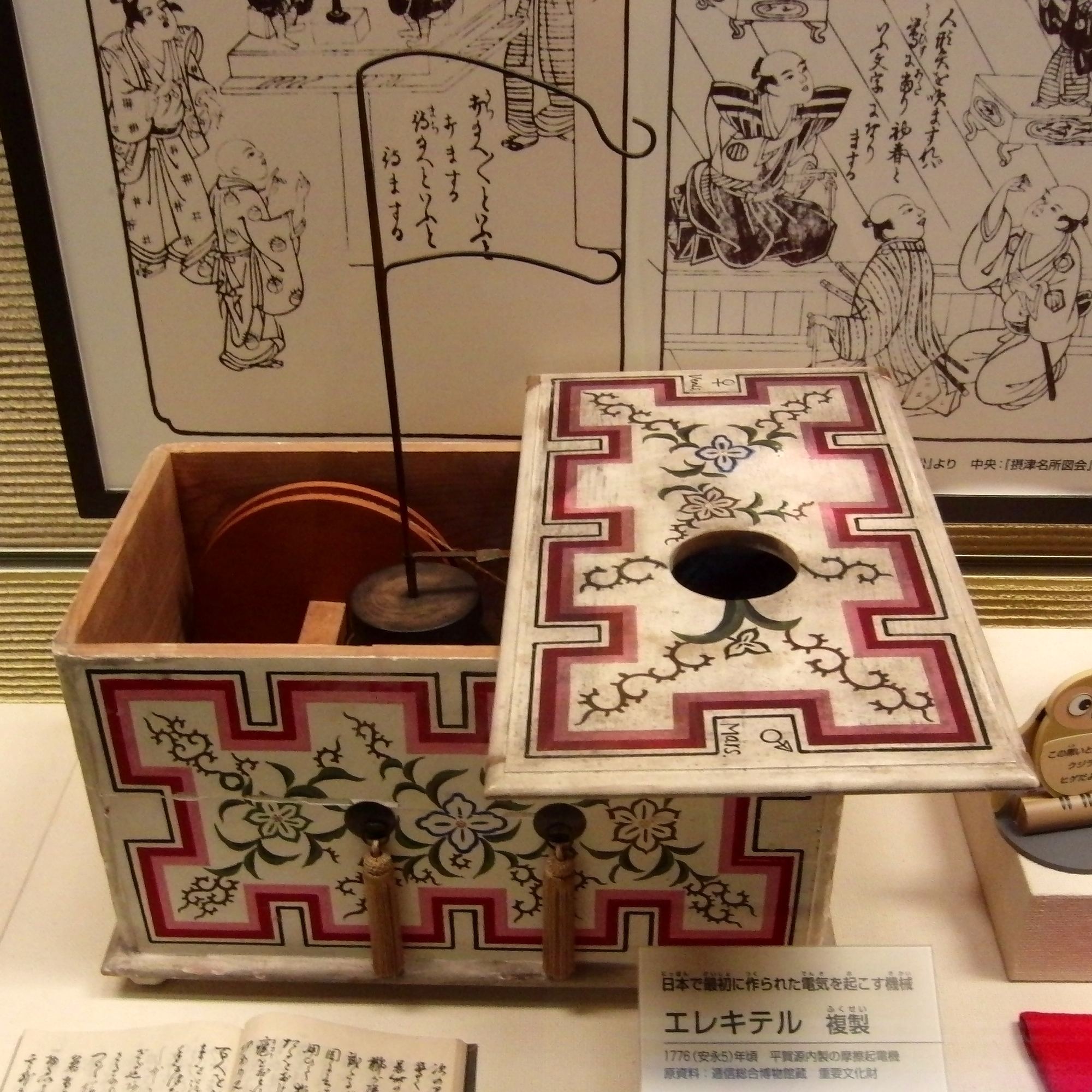 Elekiter by Hiraga Gennai, replica. Exhibit in the National Museum of Nature and Science, Tokyo, Japan.